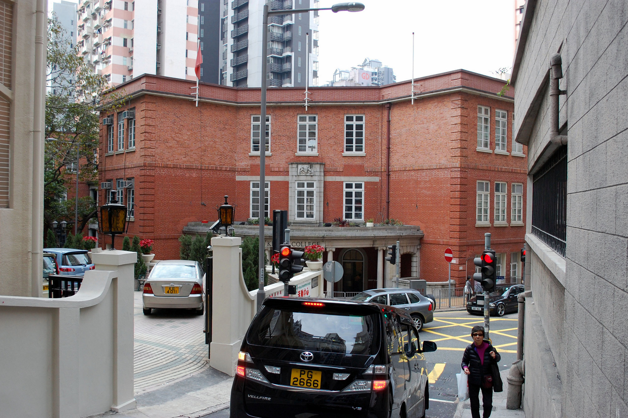 King's College, Sai Ying Pun, Hong Kong.